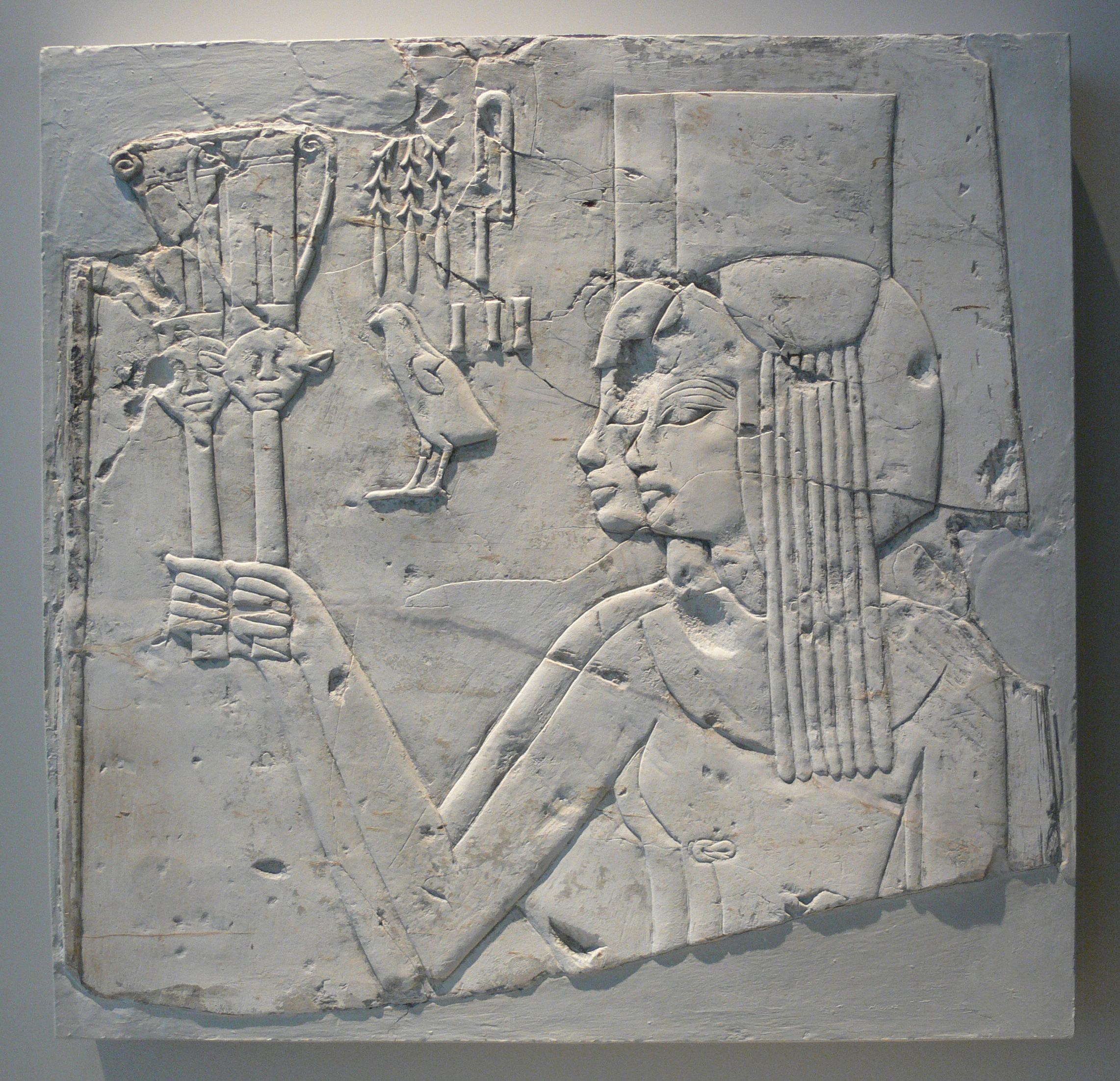 Two princesses with Sistra, fragment from a tomb relief; limestone; Theben West; New Kingdom, 18th dynasty; c. 1365 BC. Egyptian Museum, Berlin, Inv. no. 18526.